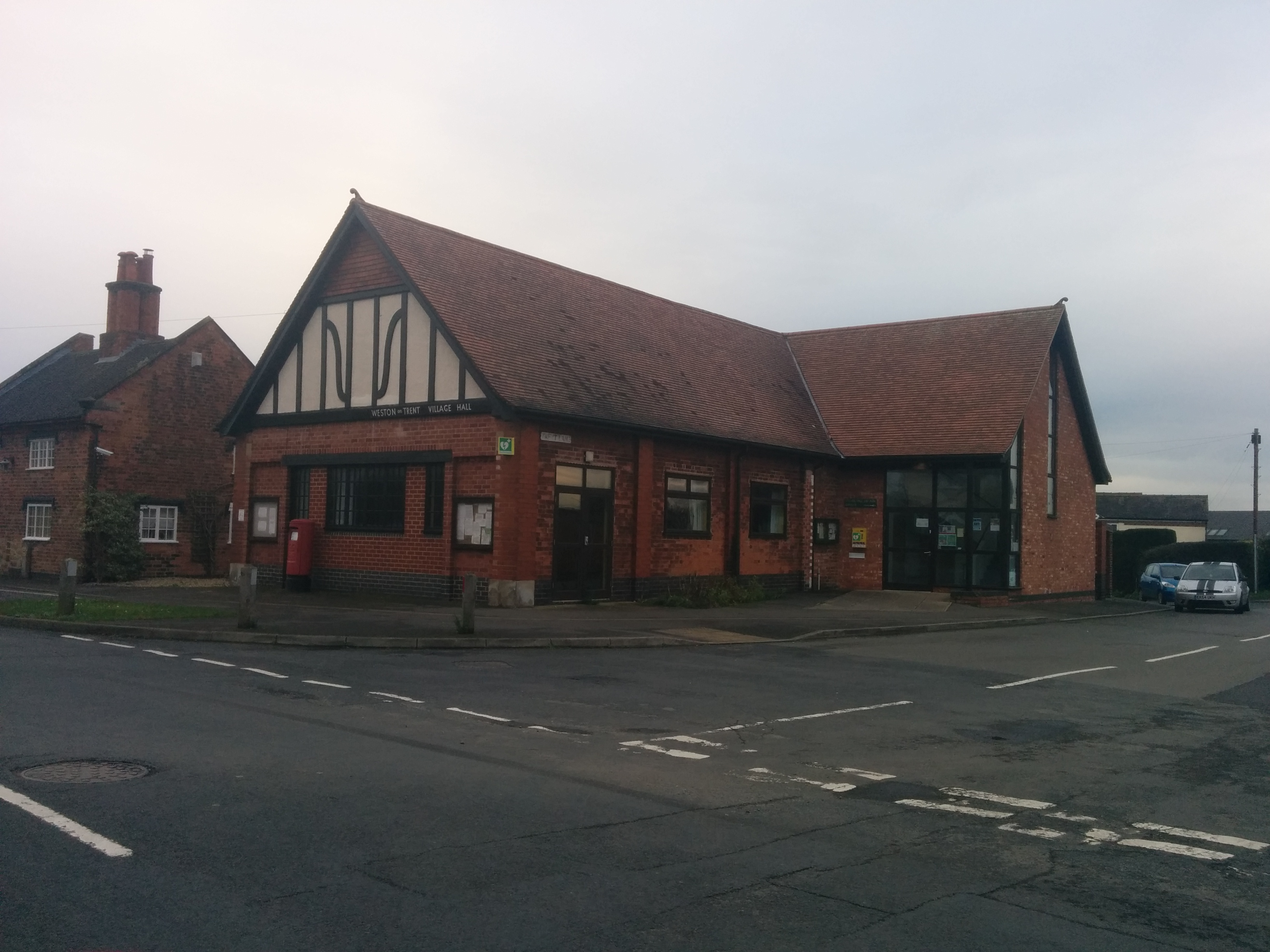 Weston on Trent Village Hall 2016